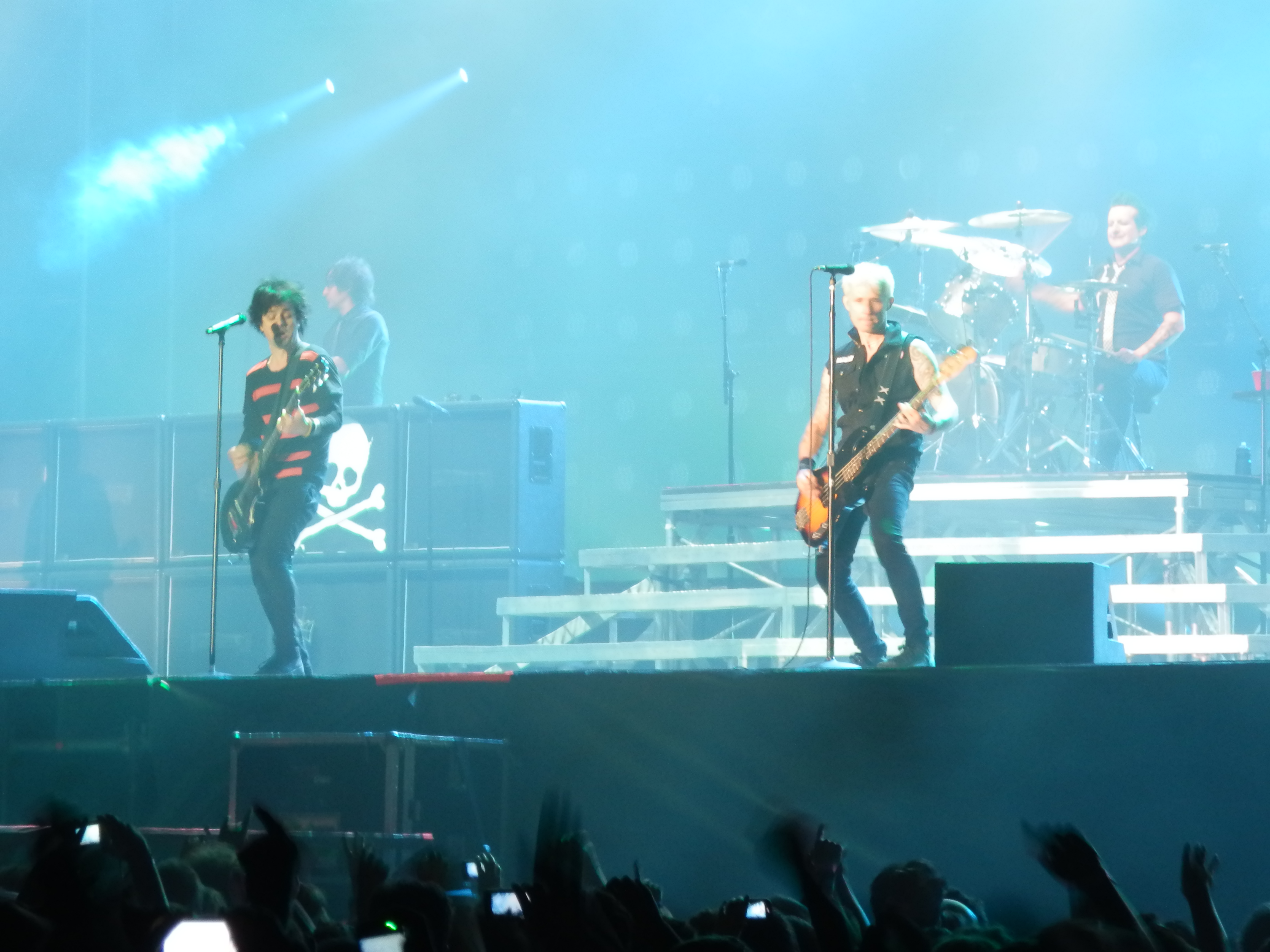 Green day Live 5 june 2013